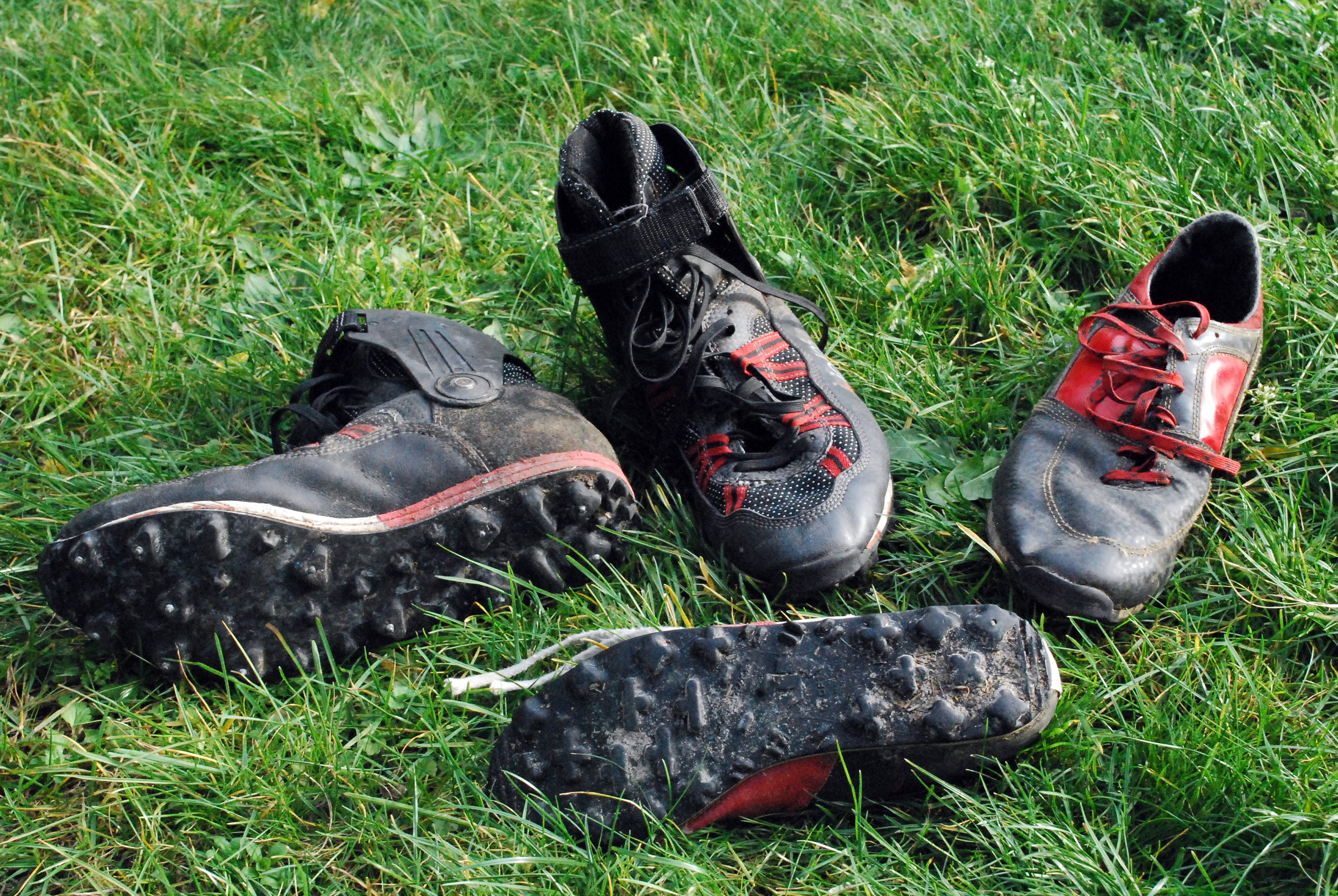 different orienteering shoes